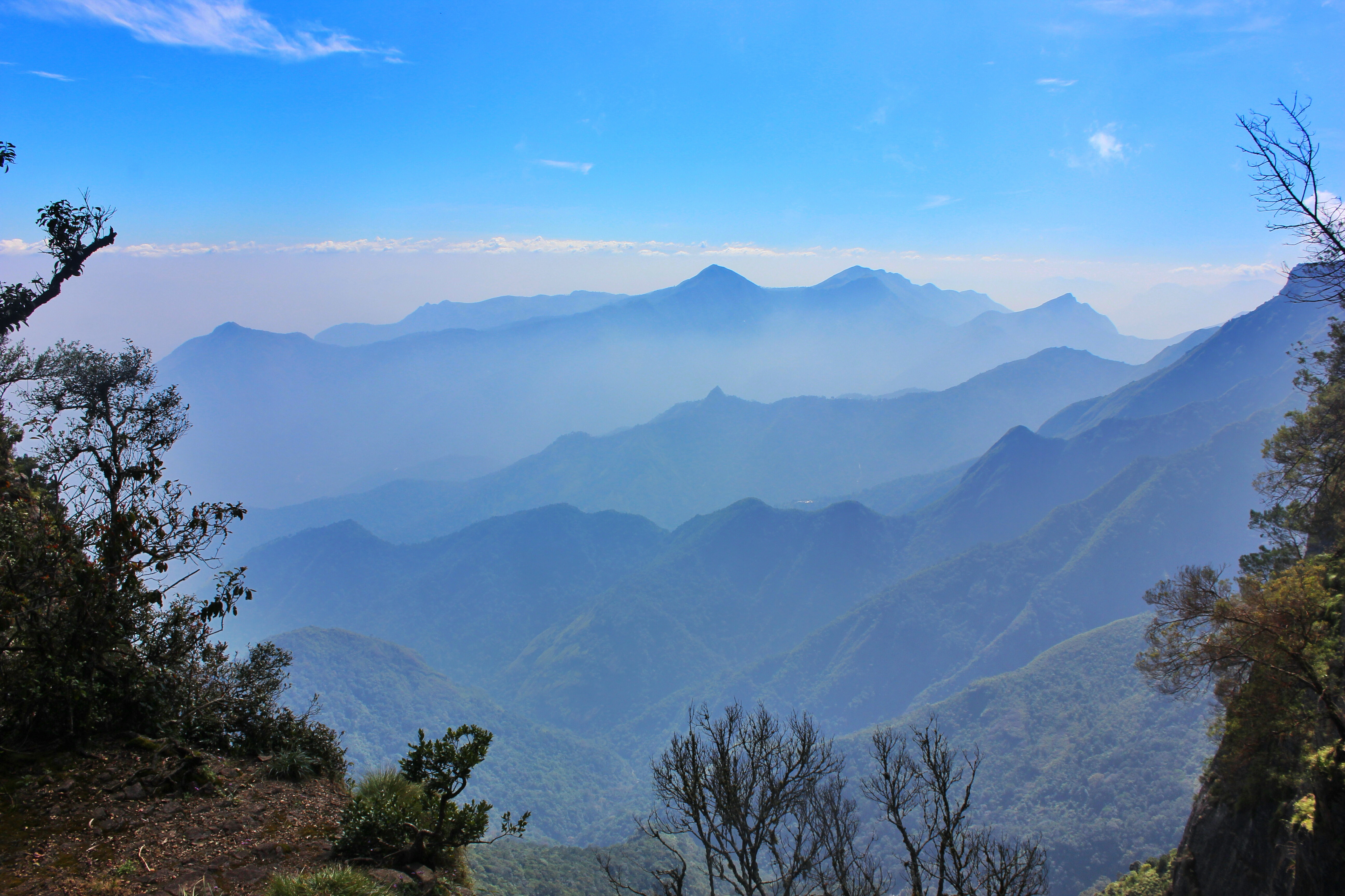 Layer of mountains